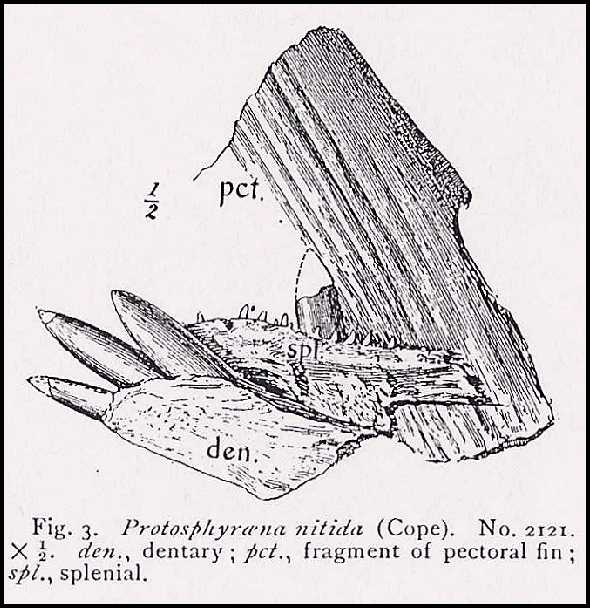 "Dentition and partial pectoral fin from Protosphyraena." This image was taken from Hay, O. P. 1903. "On certain genera and species of of North American Cretaceous Actinopterous Fishes. Bulletin of the American Museum of Natural History 19:1-95. The artist is unknown. This image was originally published in the United States before 1923 and is therefore in the public domain.